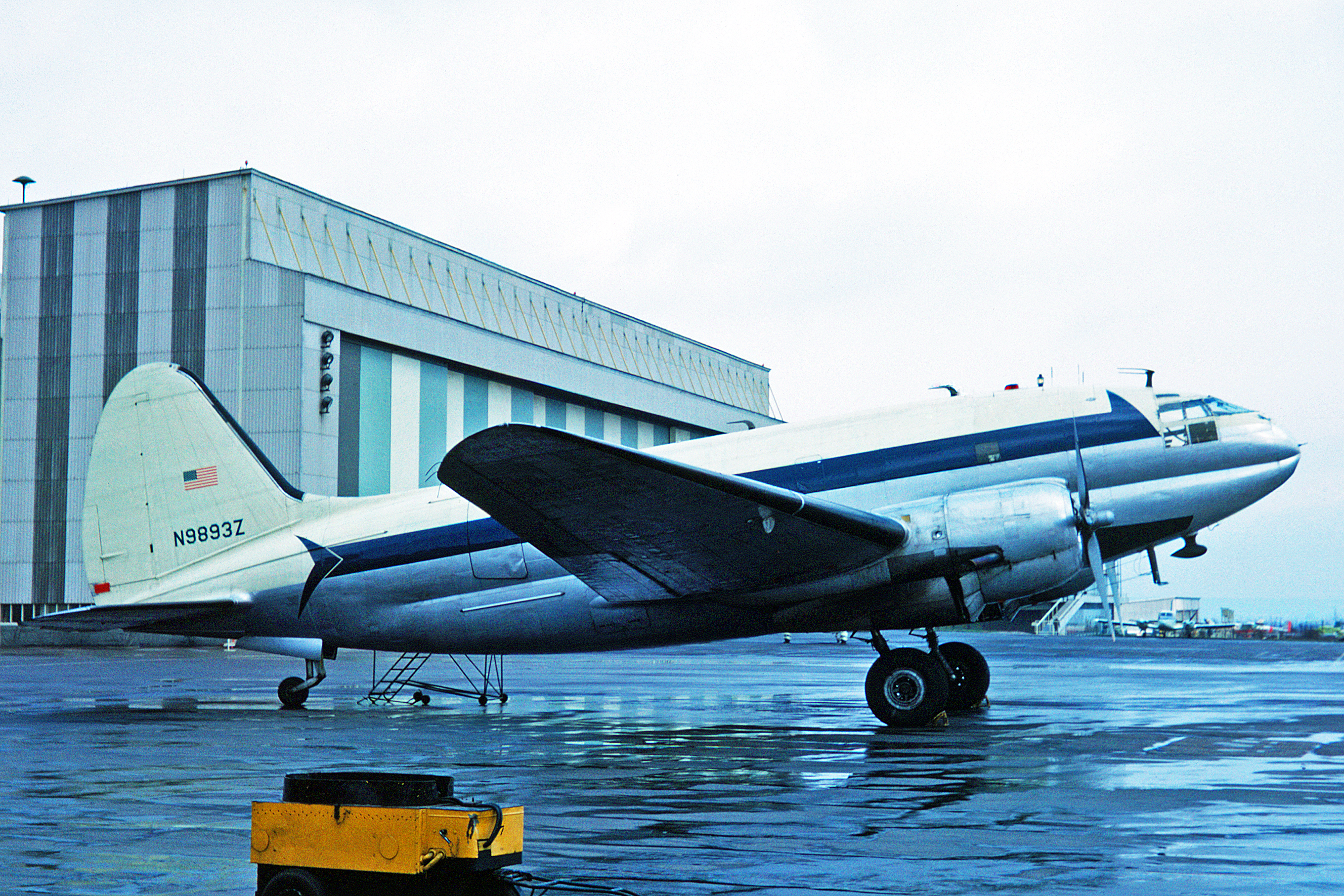 "N9893Z Curtiss C-46D Commando Lufthansa Cargo(Capitol Aws) STR 30MAR66 Operated for Lufthansa Cargo by Capitol Airways. Taken at Stuttgart (STR) This aircraft was delivered new to the US Army Air Force in Dec-44 serialled 44-77574. The USAAF was renamed the US Air Force in Sep-47. It served with the USAF until it was ‘demobbed’ and sold to Capitol Airways as N9893Z in Mar-61. It was wet leased to Lufthansa Cargo in Sep-65, returning to Capitol in Jul-69. It was sold to Shamrock Airlines in 1973 and sold to Caribbean Air Services in 1976. From there it became HK-2020 with La Urraca in Jan-78. It was sold to Aerosucre Colombia in 1979 and sold again to Selva Colombia in 1992. I can find no further information and by 1992 the aircraft was almost 50 years old so I assume it was retired and broken up at Selva’s base at Villavicencio."